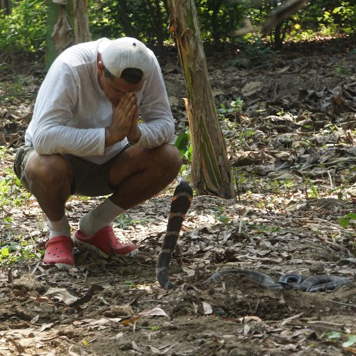 Frank paying respect to a King Cobra